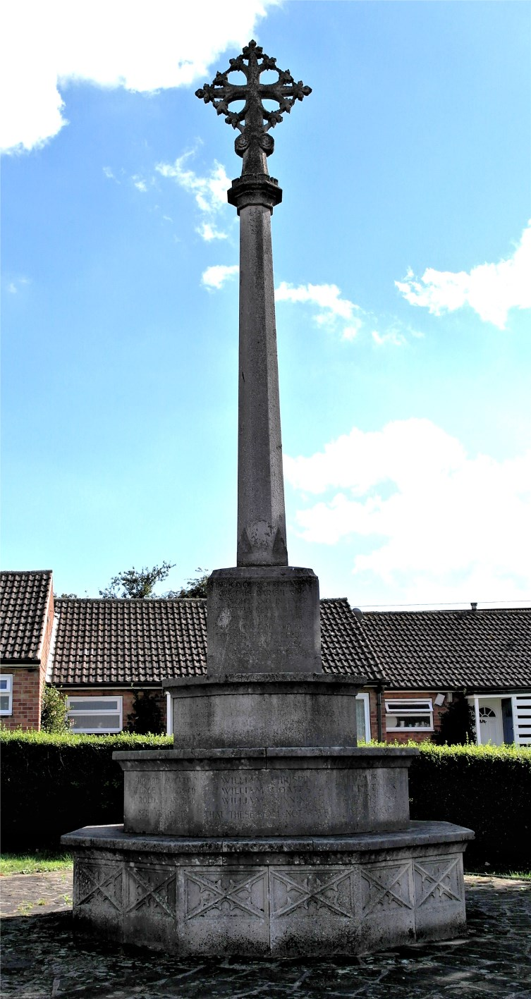 North Cave, East Riding of Yorkshire, England.This memorial is dedicated to both World Wars and the War in Malaya 1951.